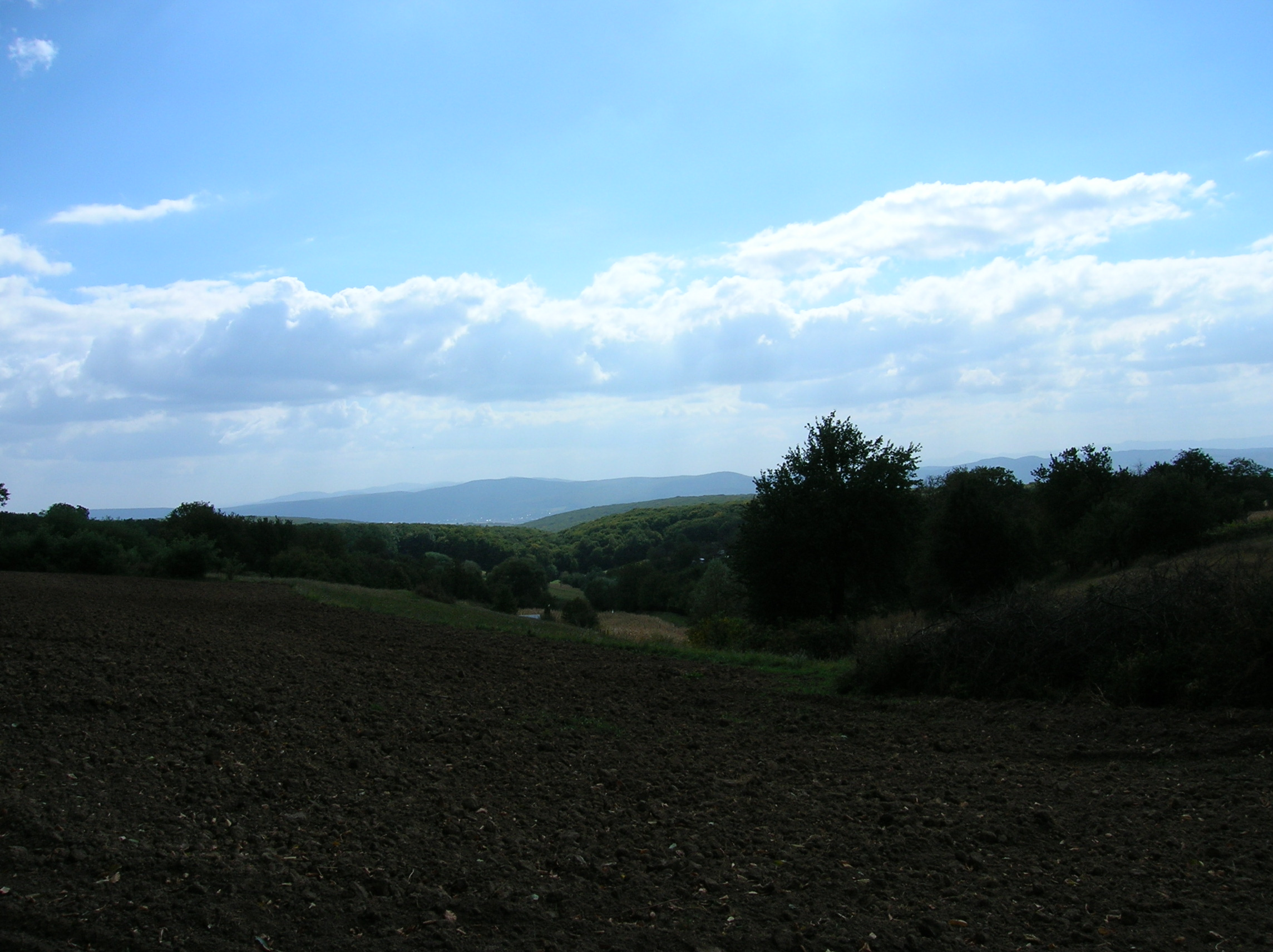 Runc Forest (Nature Reserve), Neamț and Bacău counties, Romania